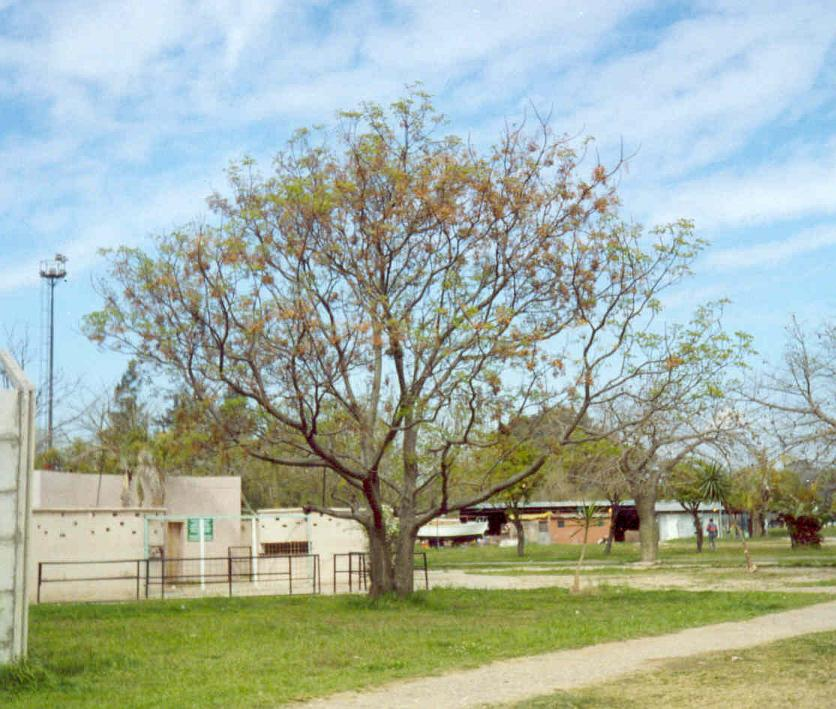 A Chinaberry tree (Melia azedarach) bearing fruit. These small yellow drupes are extremely toxic. I, Pablo D. Flores, took this picture myself in Rosario, Argentina, where these invasive trees are extremely common, in September 2005 (near the end of winter).